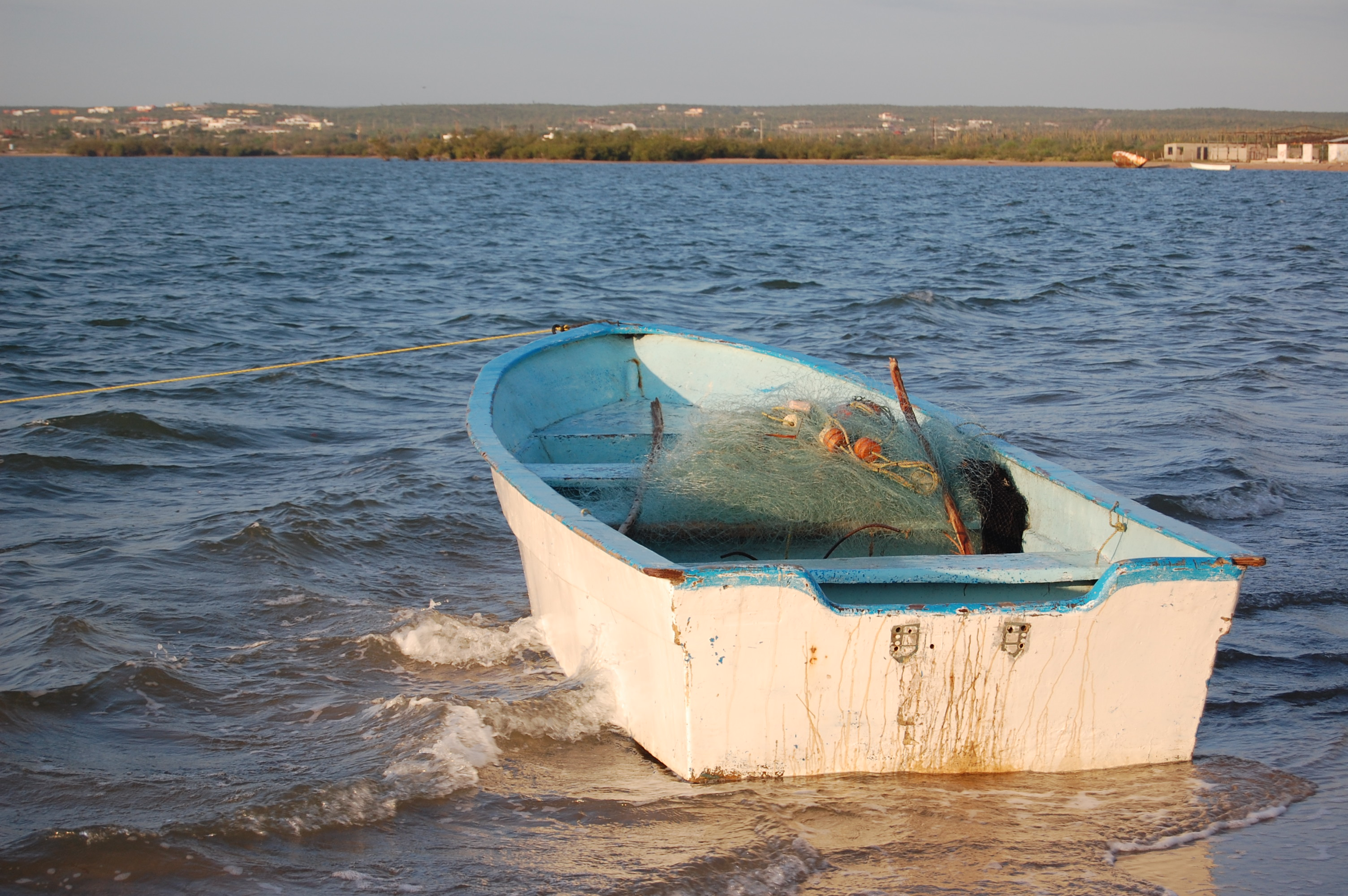 This is an image taken from the sandy peninsular beach on the northern side of El Centenario, near Comitan. In the foreground of the photo is a small fishing boat and a small bay. In the background is the hillside of El Centenario, where the Haciendas Palo Verde and Lomas del Centenario neighborhoods are located.